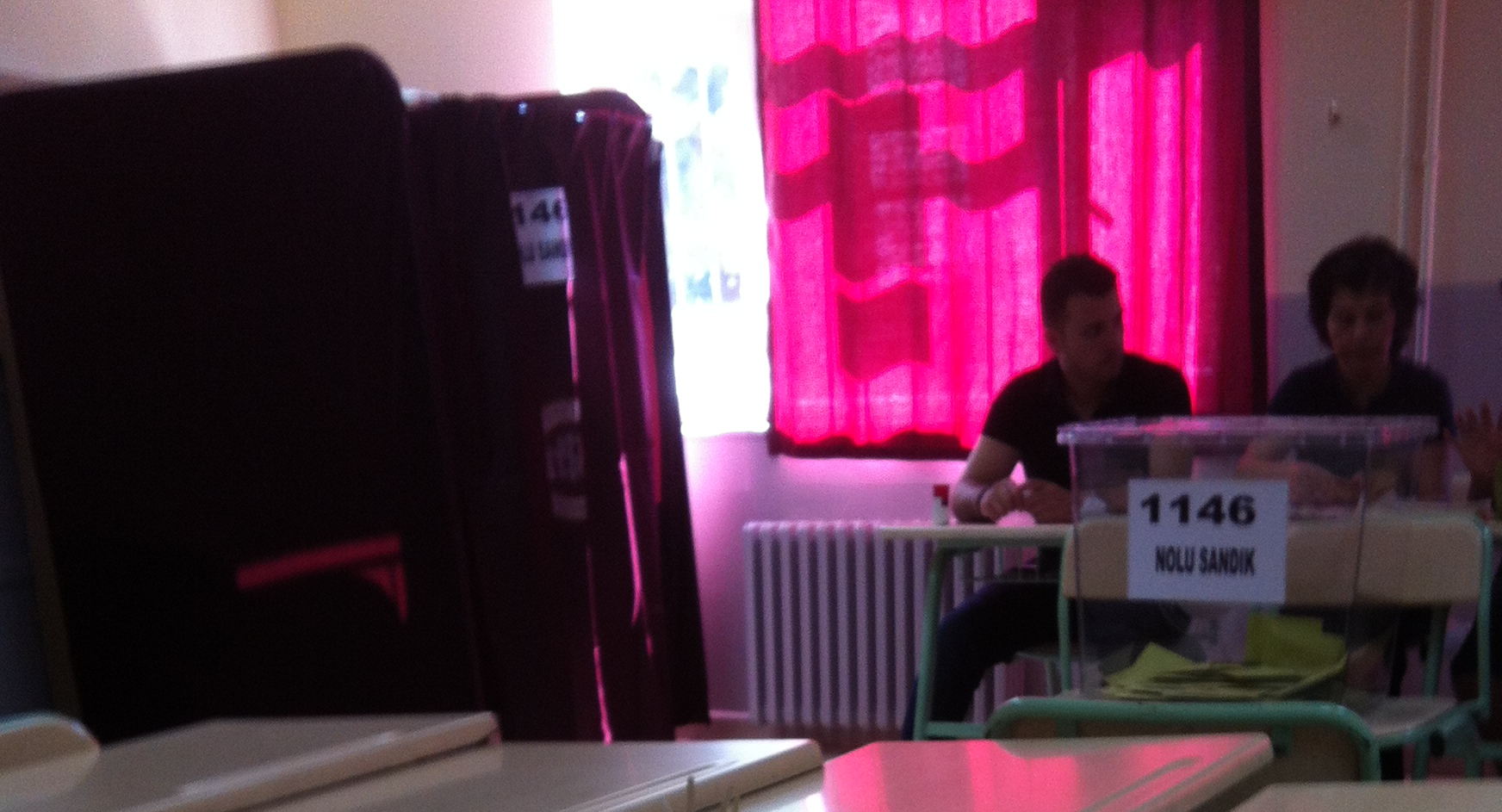 A ballot box on voting day for the 2014 Turkish presidential election